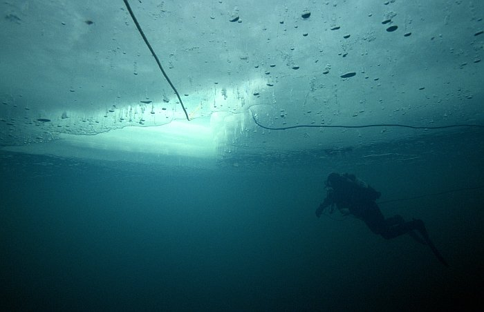 Ice diving in the mine of Paakkila, Finland, 2004.